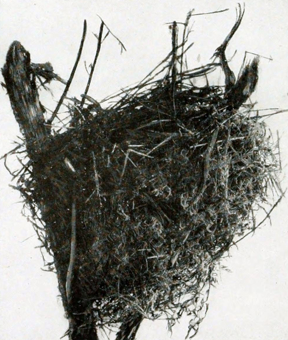 Old photo of a T. c. capensis nest from The Animals of New Zealand An account of the Dominion's Air-breathing vertebrates (1909) By Captain F. W. HUTTON, F.E.S. AND JAMES DRUMMOND, F.L.S., F.Z.S.